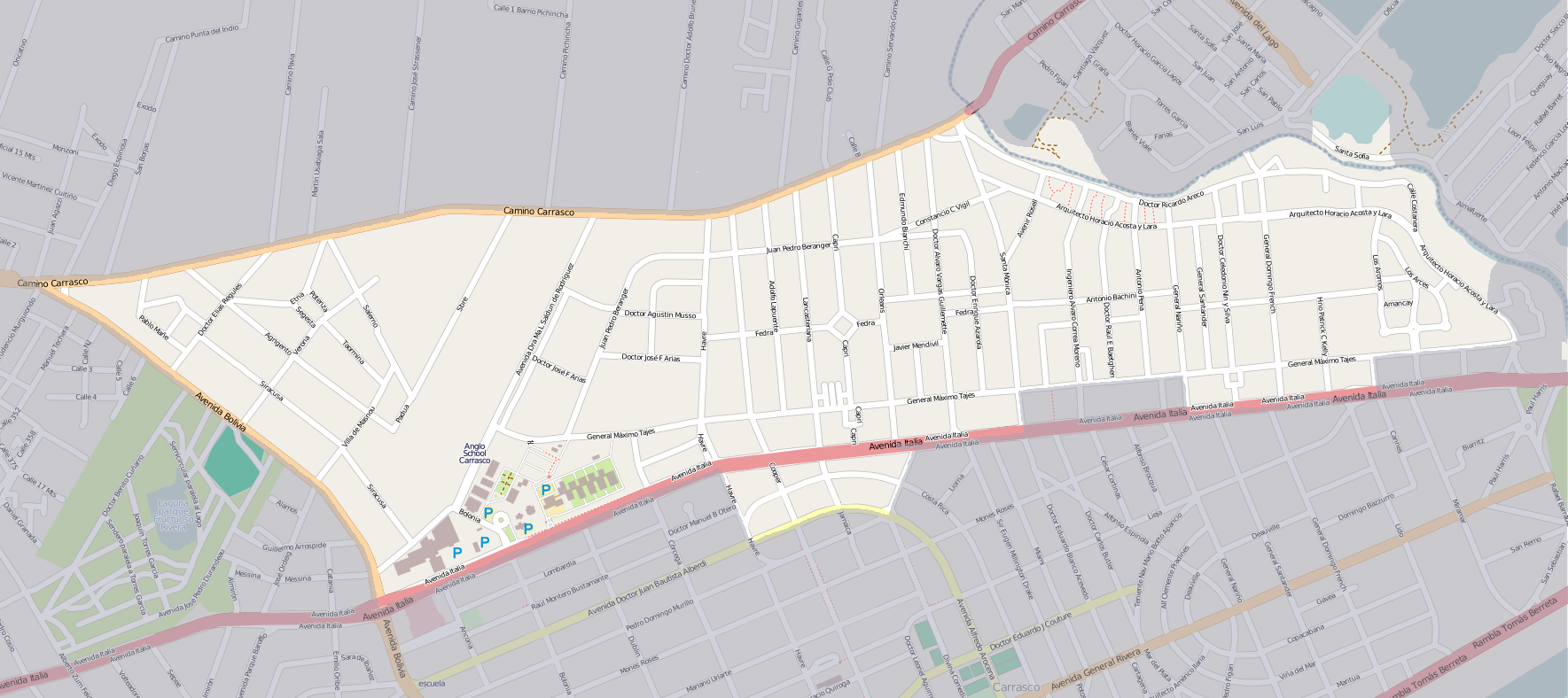 Street map of Carrasco Norte, Montevideo, exported from OpenStreetMap. I added shading to delimit the barrio. This map may be incomplete, and may contain errors. Don't rely solely on it for navigation.